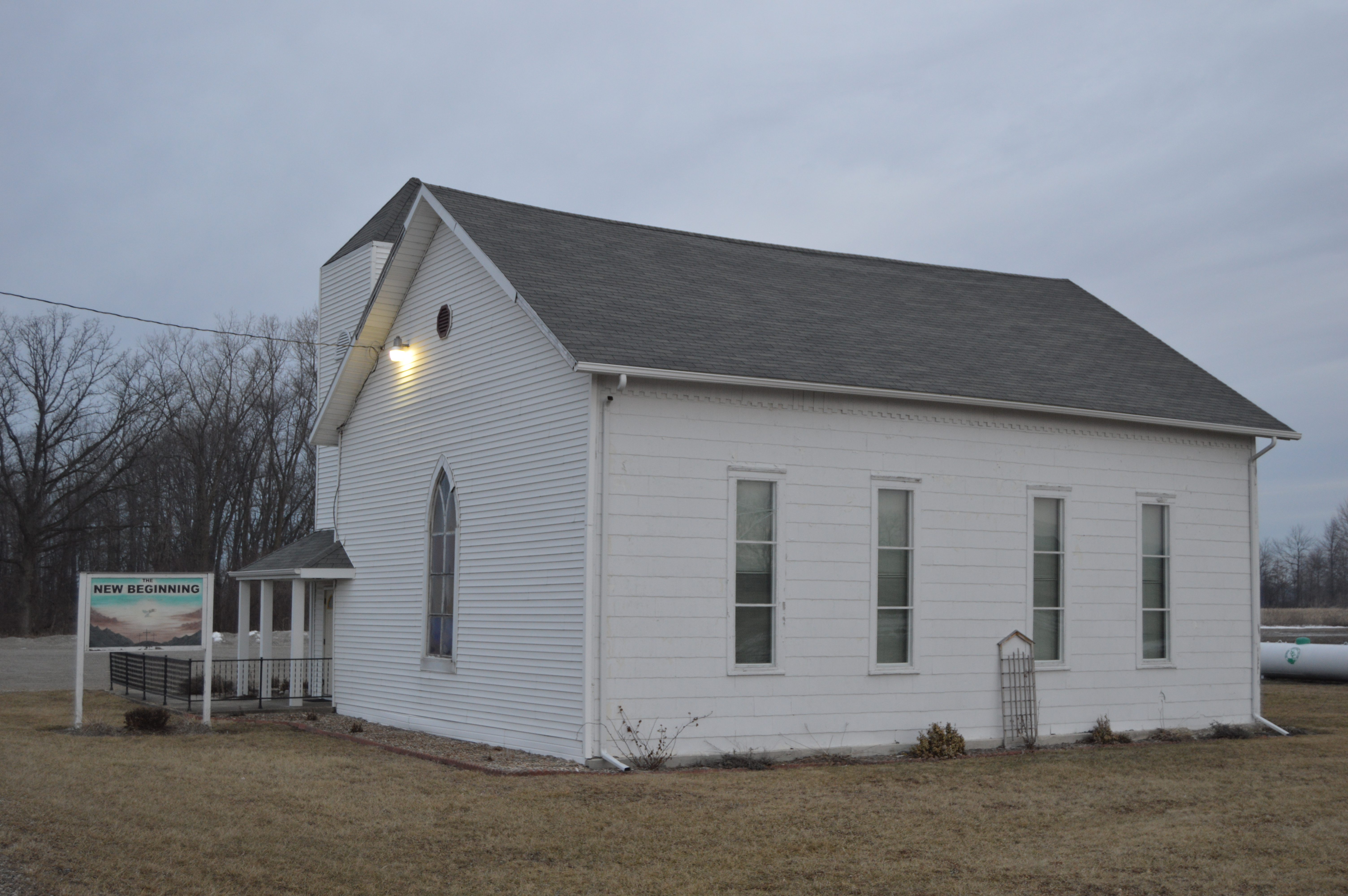 Front and eastern side of the New Beginnings Church, located at 2187 W. State Road 218 west of Poneto in Liberty Township, Wells County, Indiana, United States.